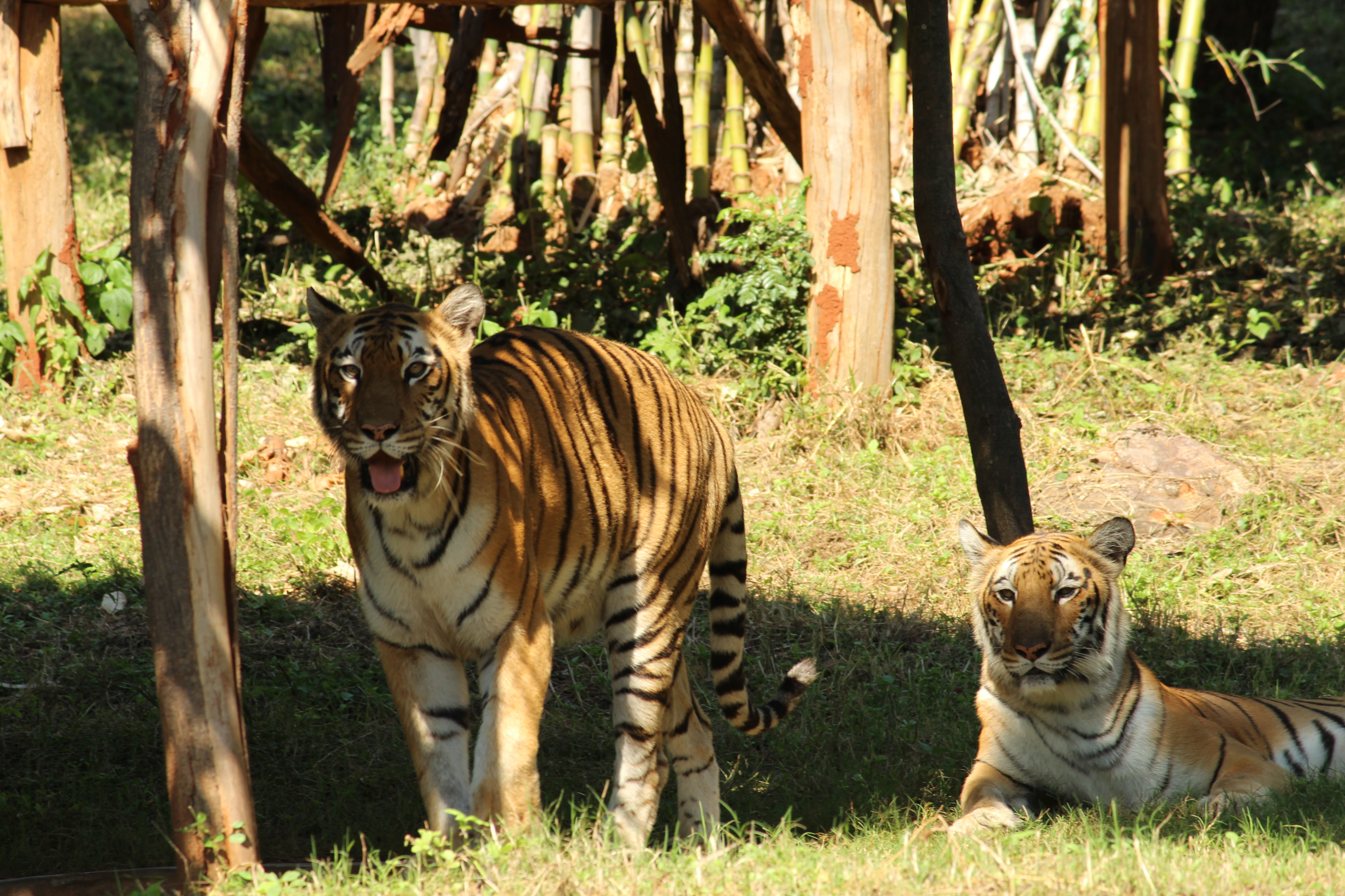 Great Indian Tiger 3 at Indira Gandhi Zoological Park, Visakhapatnam